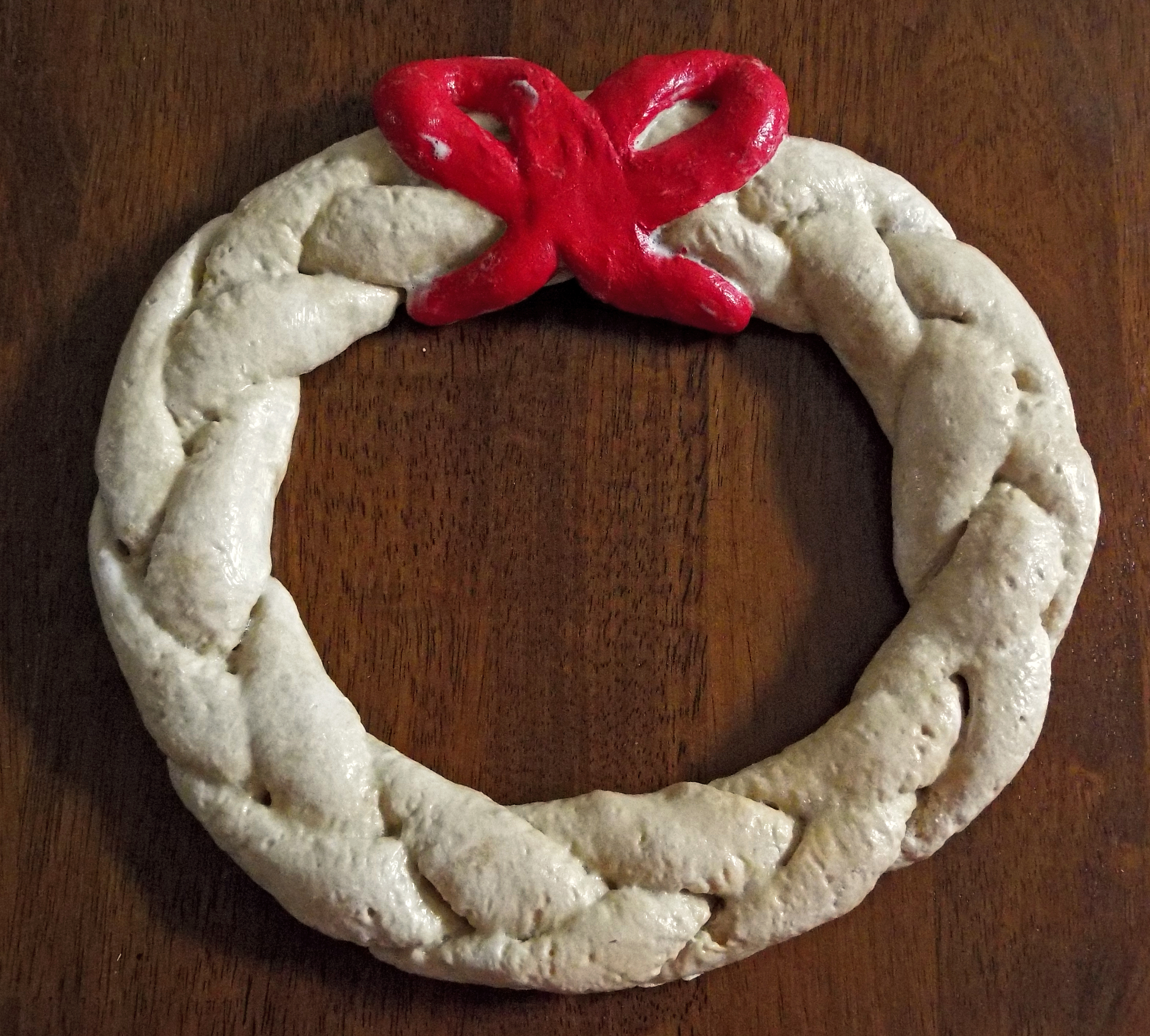 A wreath made from salt dough. Original design.